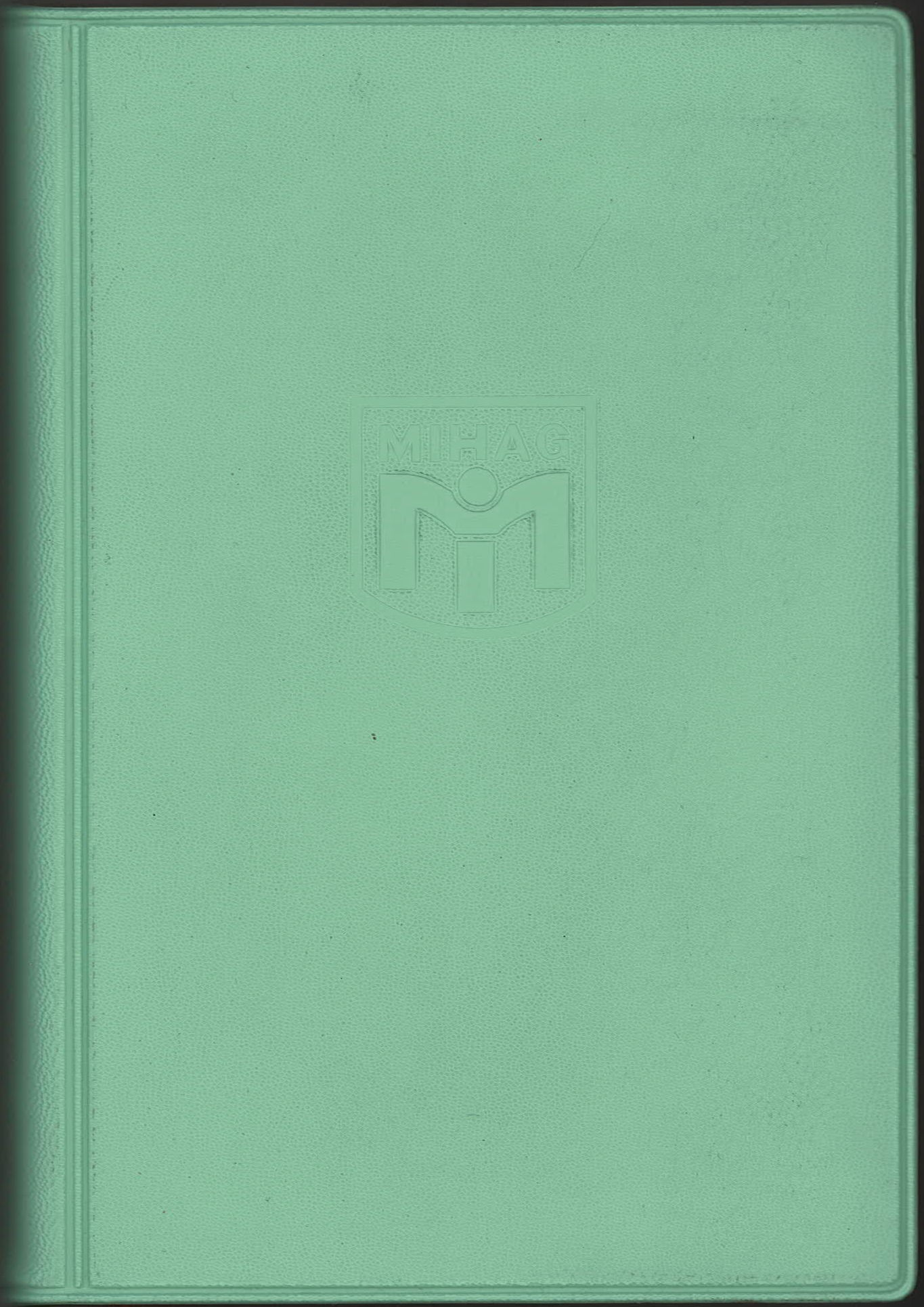 Frontcover of the special edition of Baedeker's Schleswig-Holstein 1963 for the MIHAG company